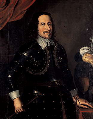 Gustav Horn (1592–1657), Swedish commander